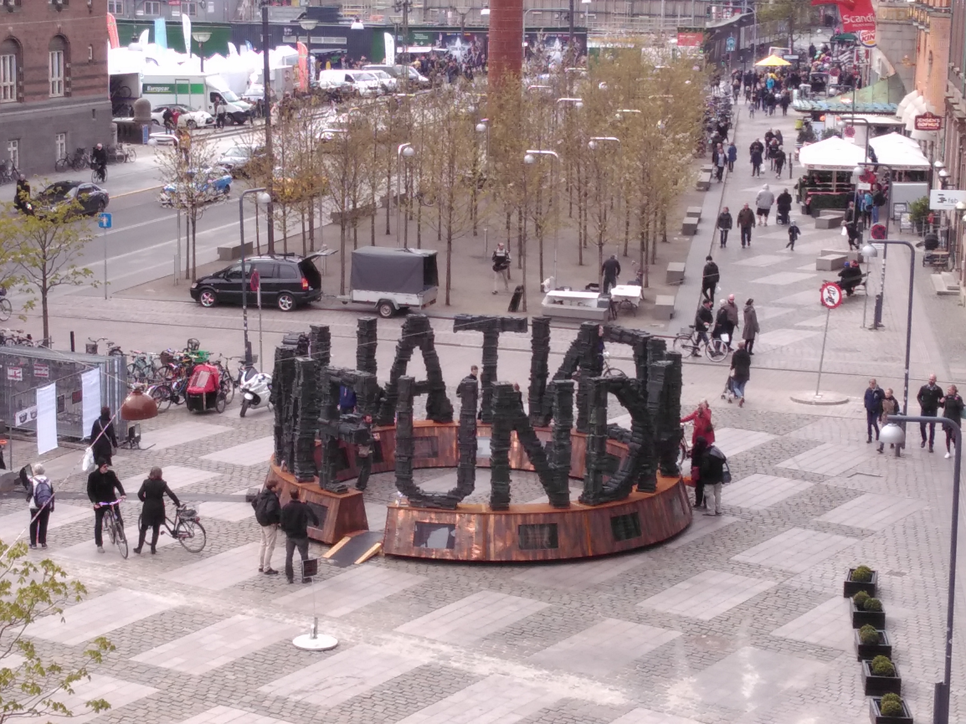 The sculpture "Fundamentalism" are made by the Danish artist Jens Galschiot. The sculptures was exhibited at Rådhuspladsen in Copenhagen in Denmark.